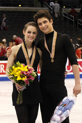 Tessa Virtue and Scott Moir at the 2009 World Figure Skating Championships.